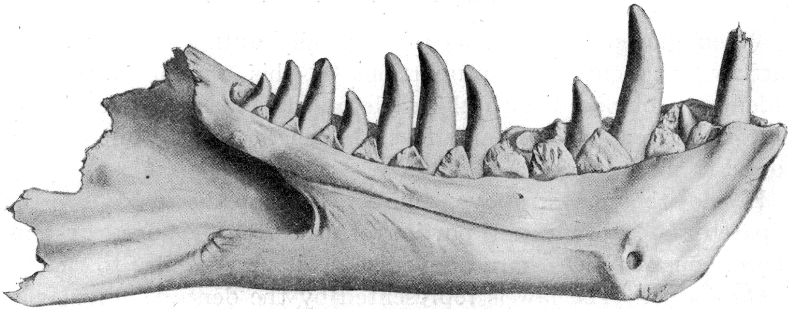 Inner surface of the left lower jaw of the type specimen of Dynamosaurus imperiosus.